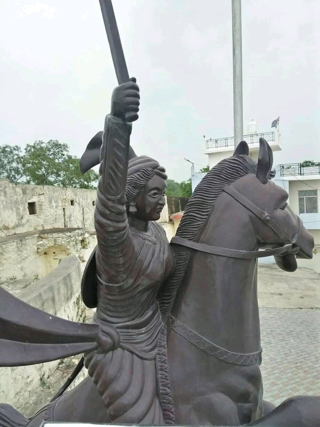 Jhalkari Bai Statue In Uttar Pradesh